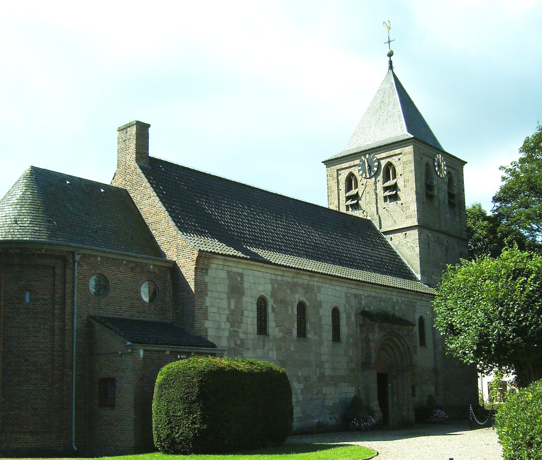 Old church of Oosterbeek now a place of remembrance for the landings and fights of the allied airborne troops during the Battle of Arnhem in 1944.